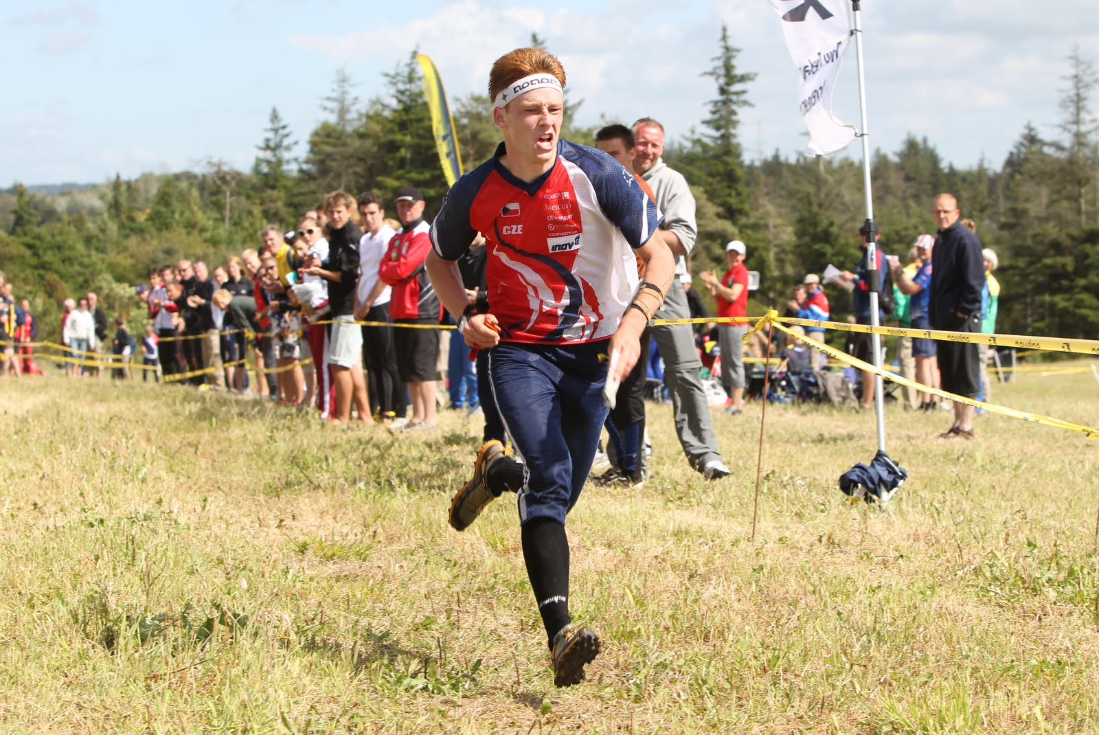 Pavel Kubát (CZE) at JWOC 2010